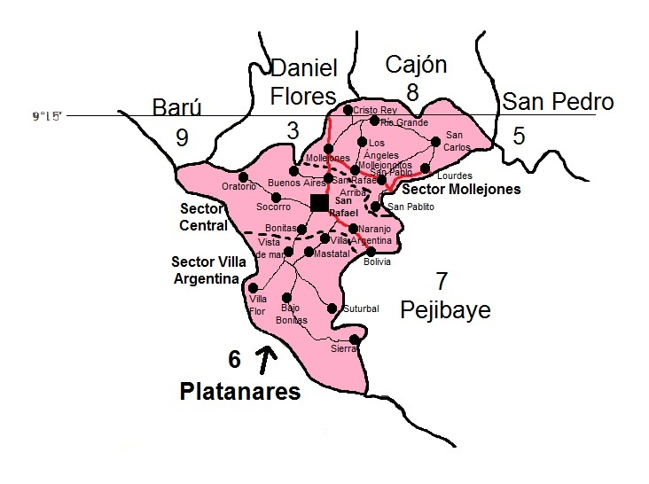 Platanares´ map